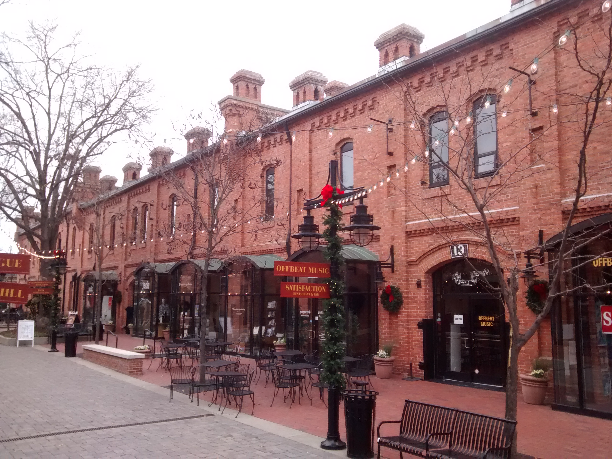 Yuille Warehouse, decorated for Christmas, in Durham, North Carolina.